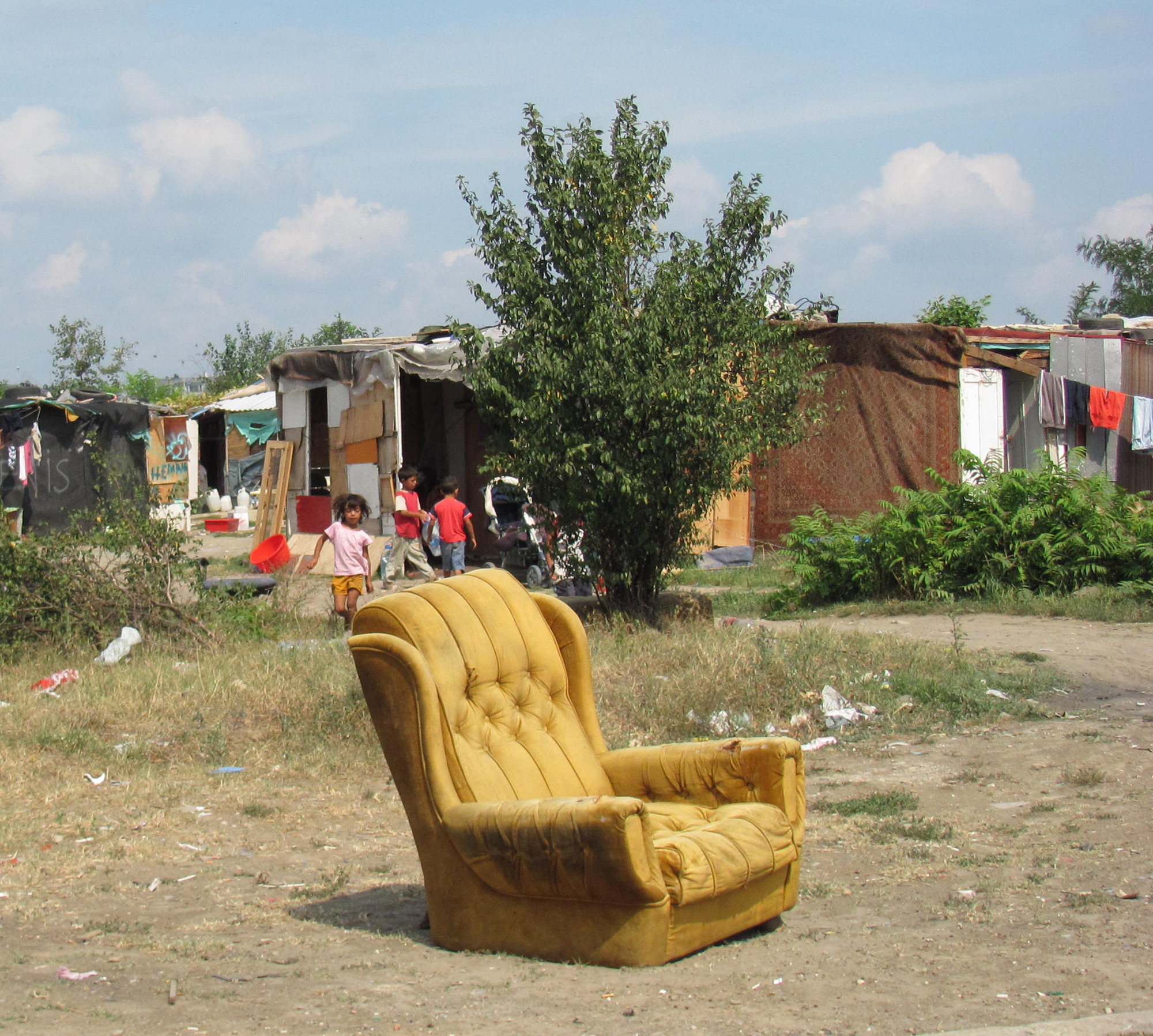 A slum in new Belgrade area.This photograph was taken with a Canon PowerShot SX120 IS